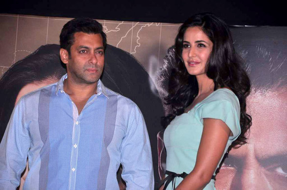 Salman Khan, Katrina Kaif at the launch of 'Ek Tha Tiger's first song 'Mashallah'